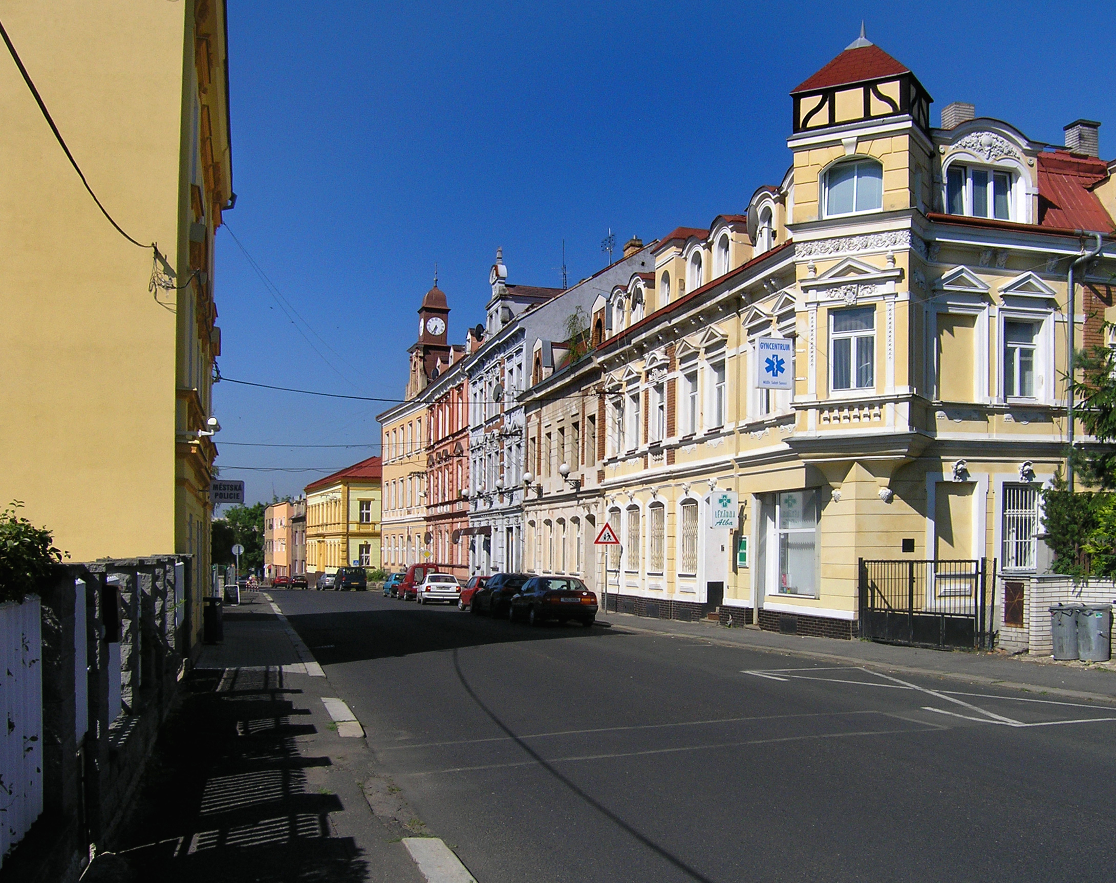 Střední street in Pozorka, part of Dubí town, Czech Republic